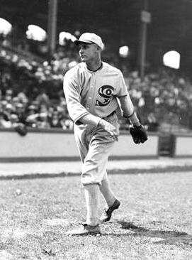 Informal full-length portrait of baseball player Frank Shellenback, of the American League's Chicago White Sox, following through after throwing a baseball, standing in front of grandstands on the field at Comiskey Park.